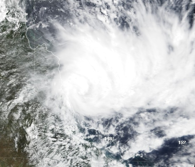 This image shows Cyclone Steve off the coast of Australia at 0105 UTC on February 27, 2000. At the time this image was captured the storm's maximum sustained winds were 50 knots (10-minute average) and the minimum central pressure was 980 mb.